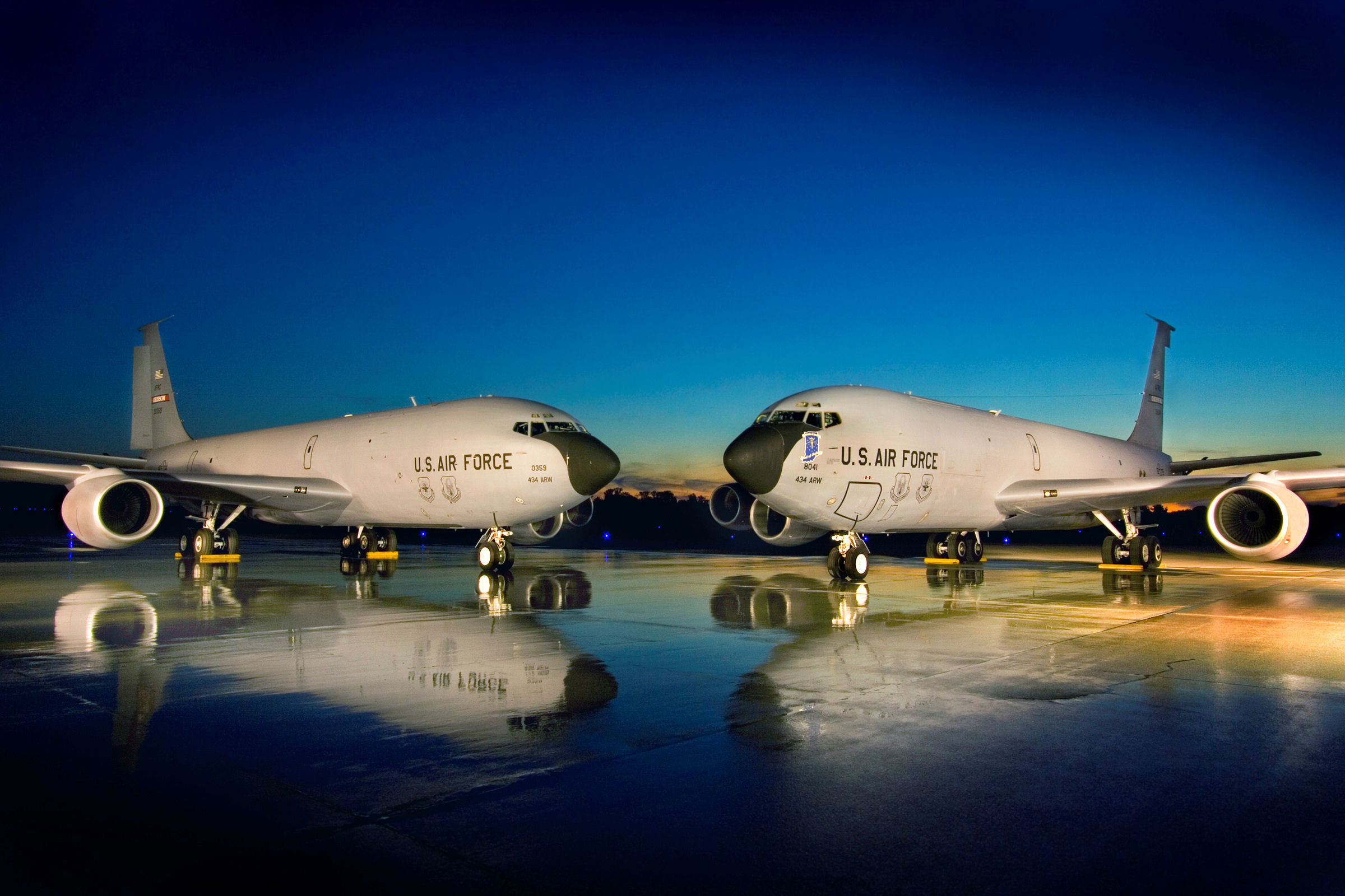 GRISSOM AIR RESERVE BASE, Ind,. -- Two KC-135R Stratotankers sit at Grissom. (U.S. Air Force photo)